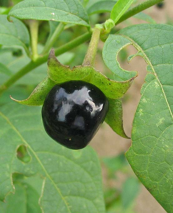 Belladona fruit. National Botanic Garden of Belgium of Meise.